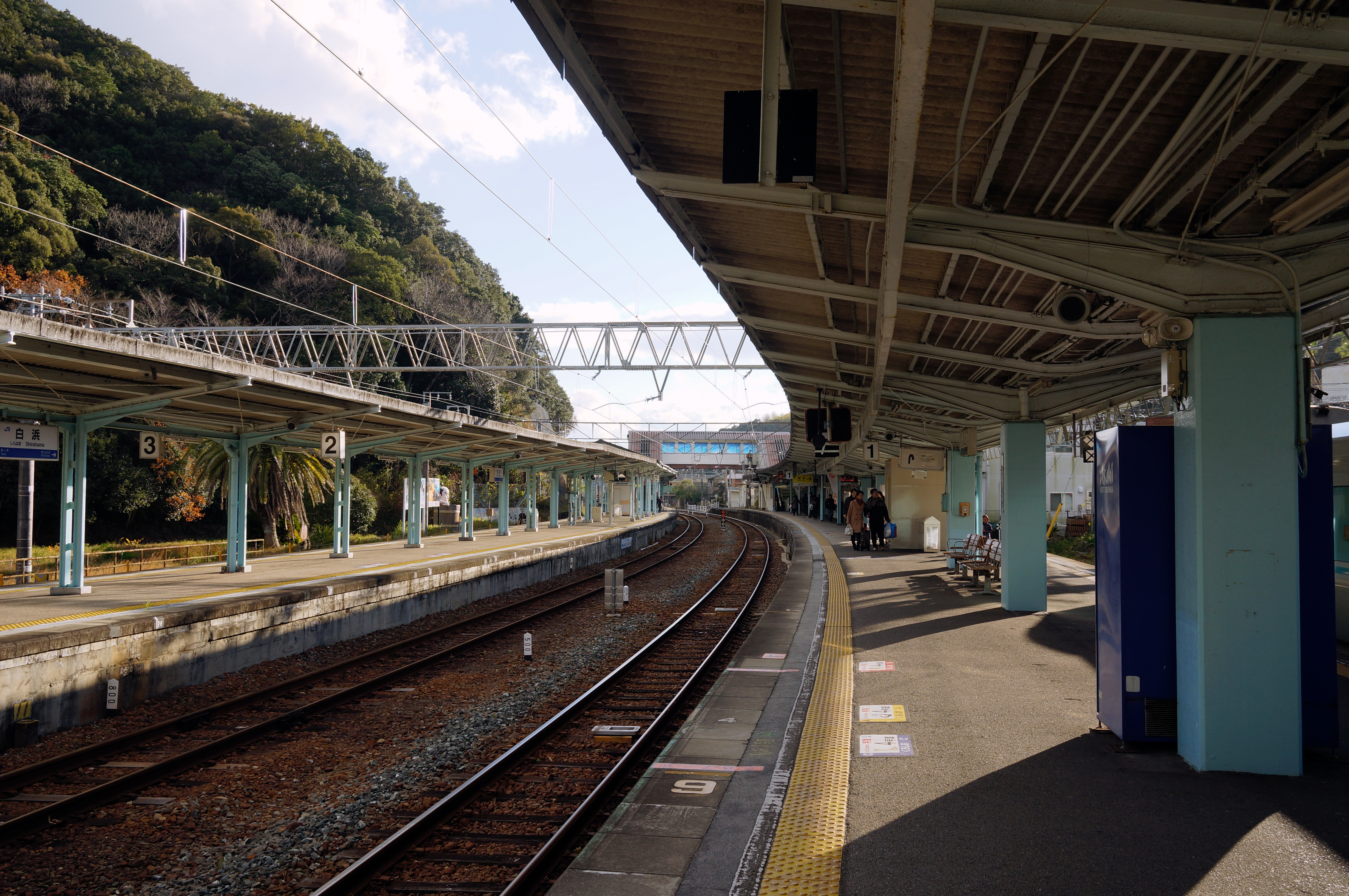 Shirahama_Station in Shirahama, Wakayama prefecture, Japan.